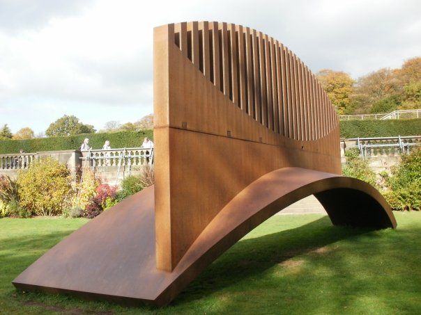 Sculpture by Nigel Hall in the Yorkshire Sculpture Park (which is a public space)